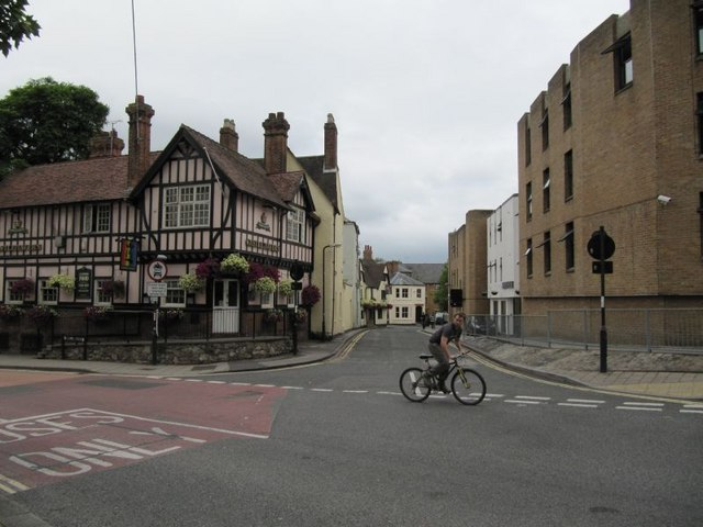 Biking past Cyclist riding past Paradise Street, Oxford. The white building you can see is to help the homeless of the city.